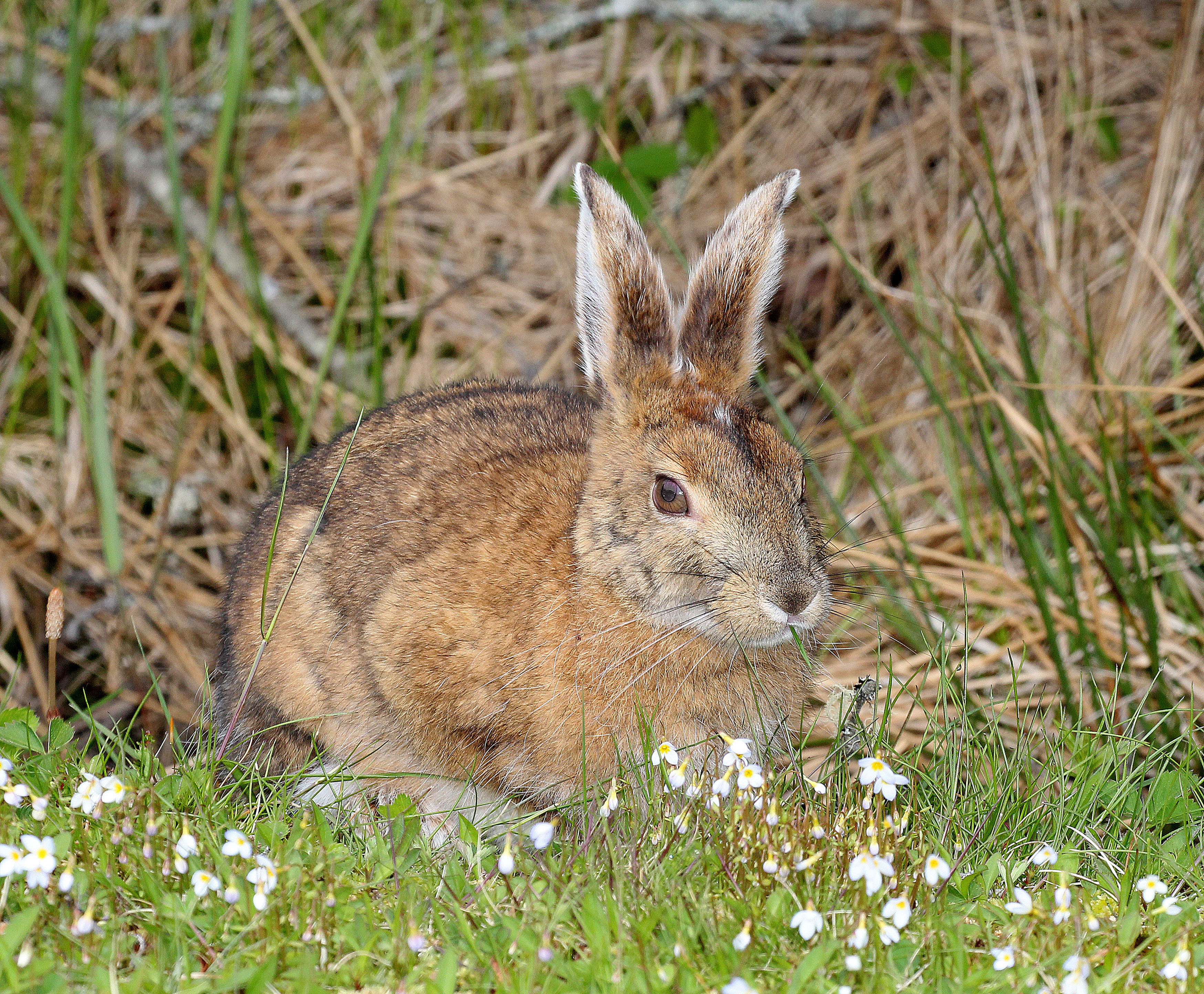 CRITTERS (MAMMALS)